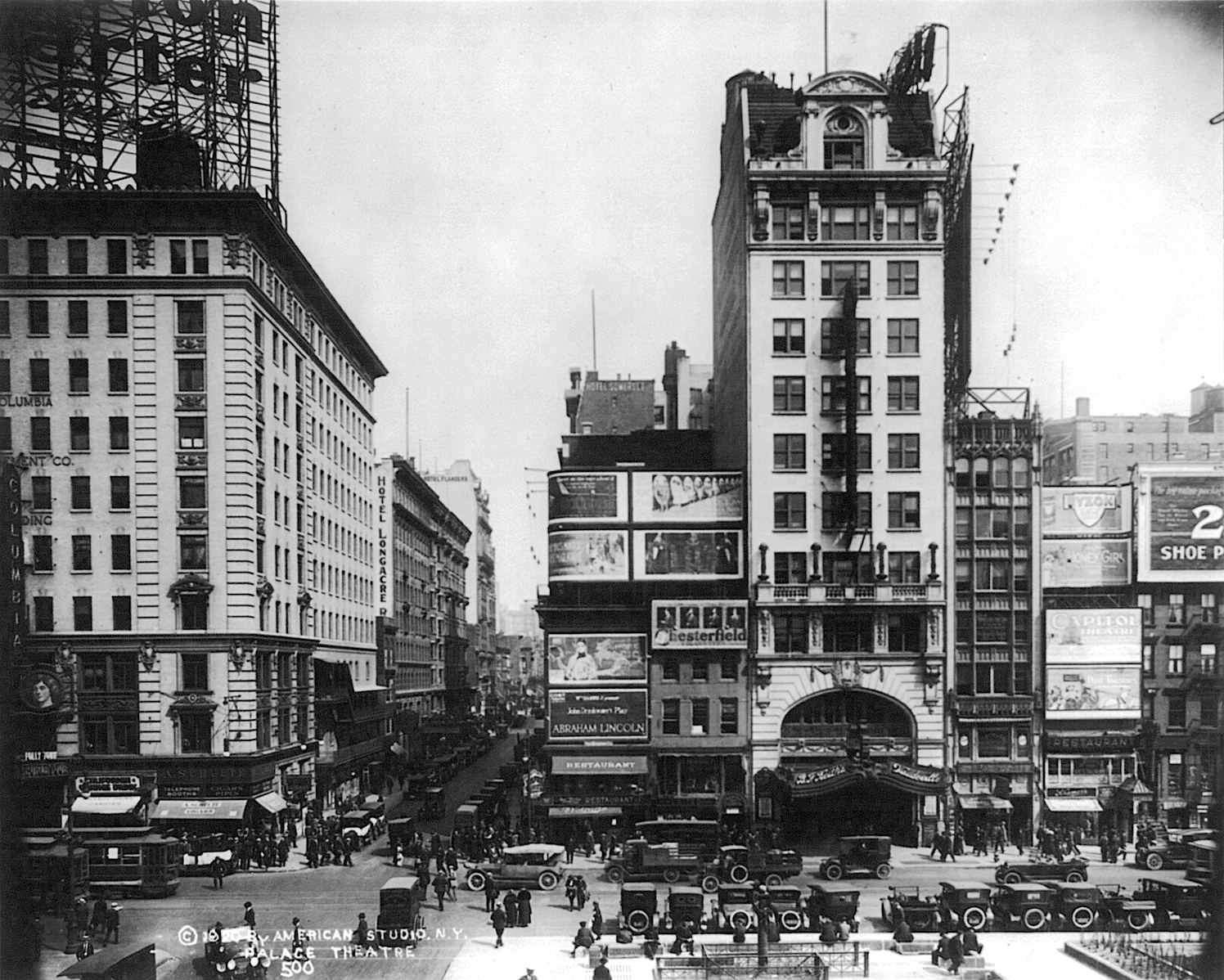 View east down 47th Street from Times Square. The Palace Theatre Building is the tall building at center-right. At left, the Columbia Amusement Company Building, including the Columbia Theatre, a prominent burlesque house. Photo is inscribed (lower left): "Copyright 1920 by American Studio, N. Y. / Palace Theatre / 500"